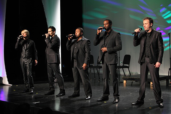 Rockapella at their January 9, 2010 concert with new band member Steven Dorian.